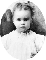 June Dickerson, daughter of the 11th Governor of Nevada Denver S. Dickerson and the only child to be born in the Nevada Governor's Mansion.